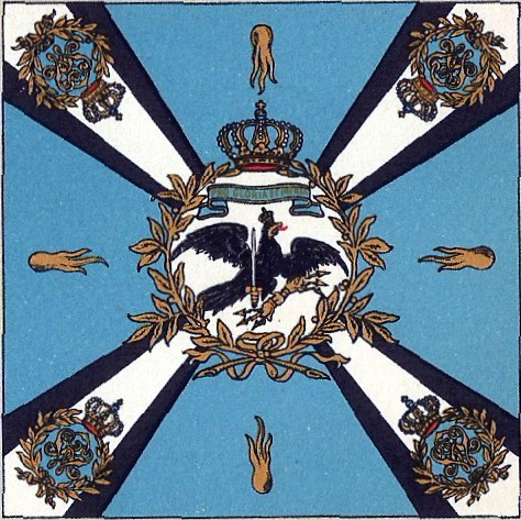 Flag of the Line Infantry regiments wearing blue epaulettes except the bataillons of the jäger